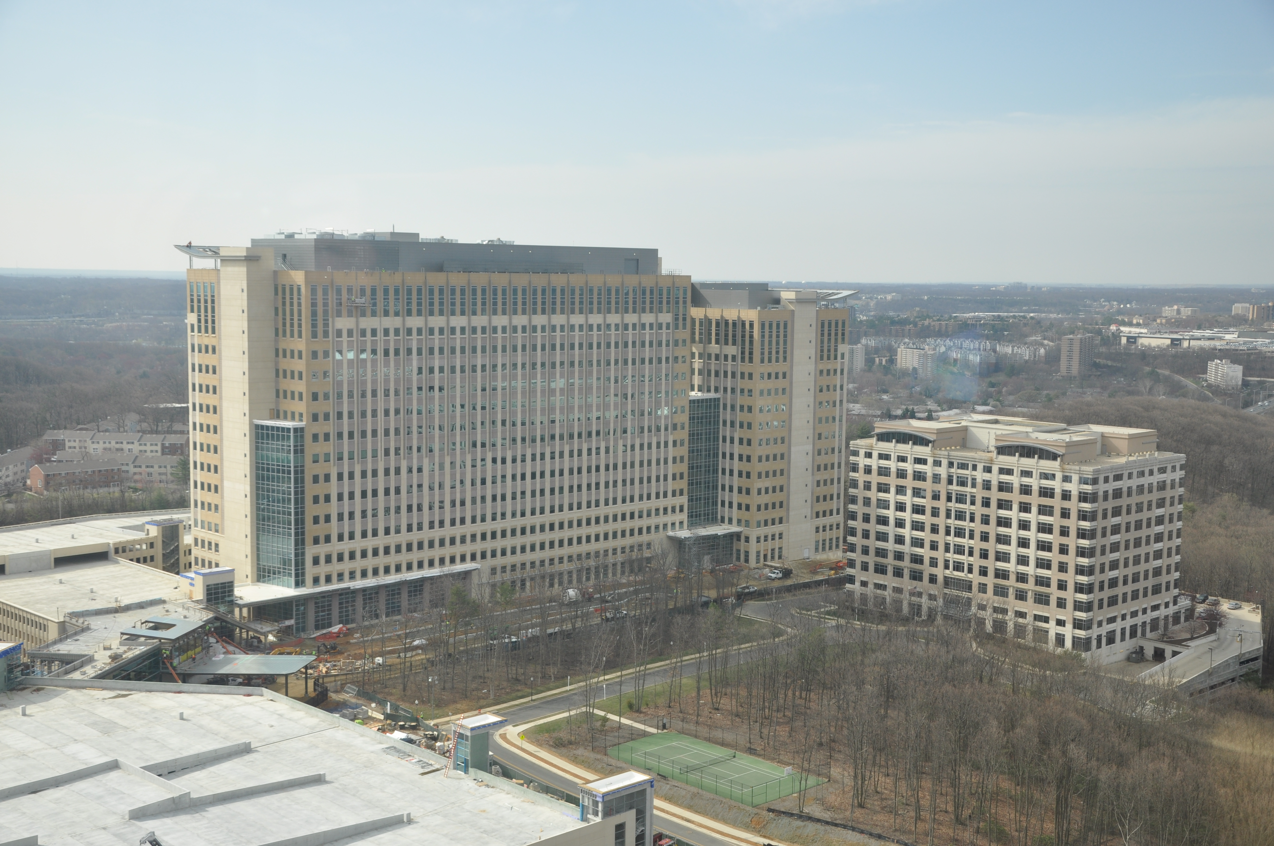 Mark Center Building Photo